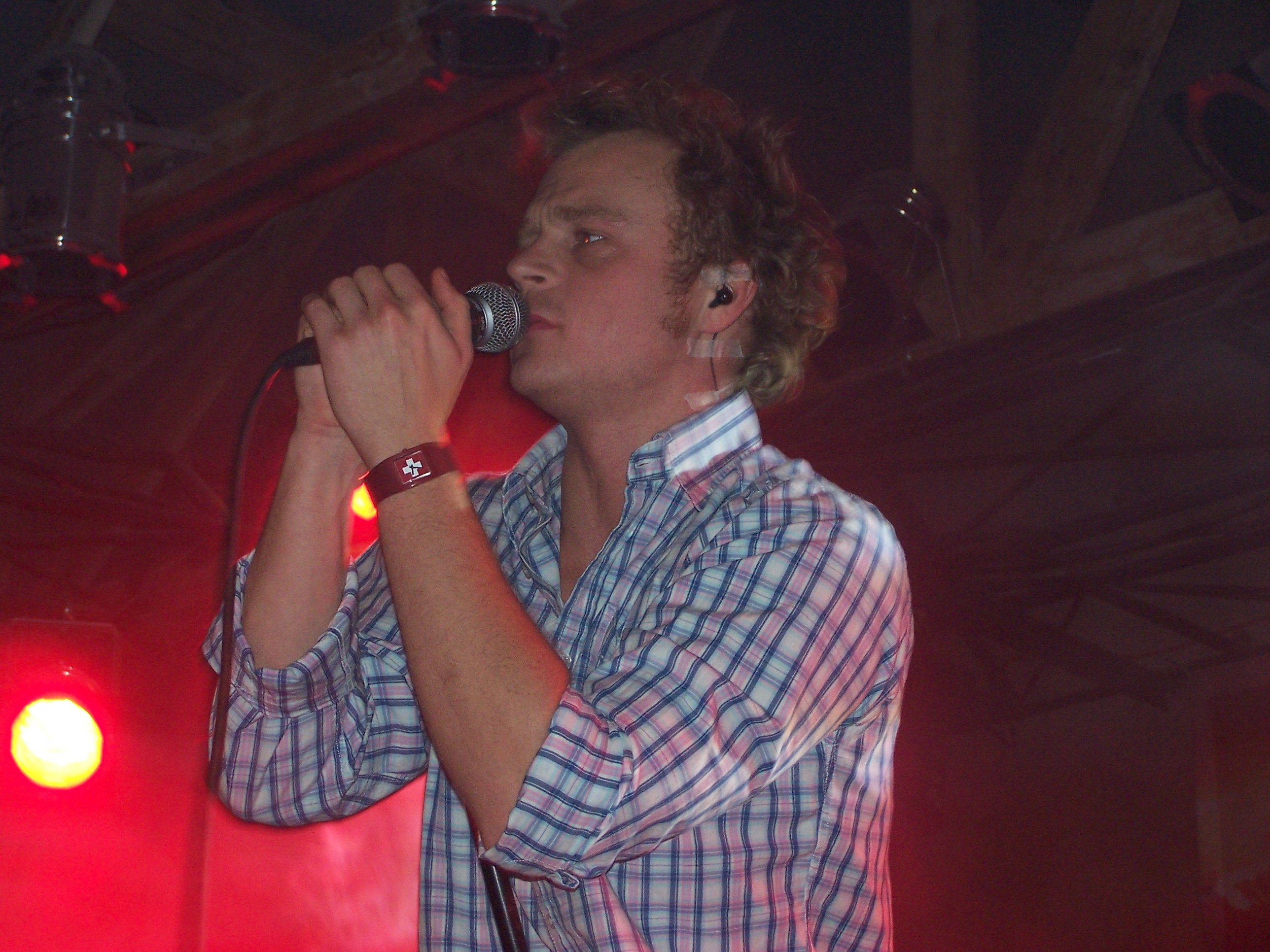 Piotr Rogucki from polish rock band Coma.